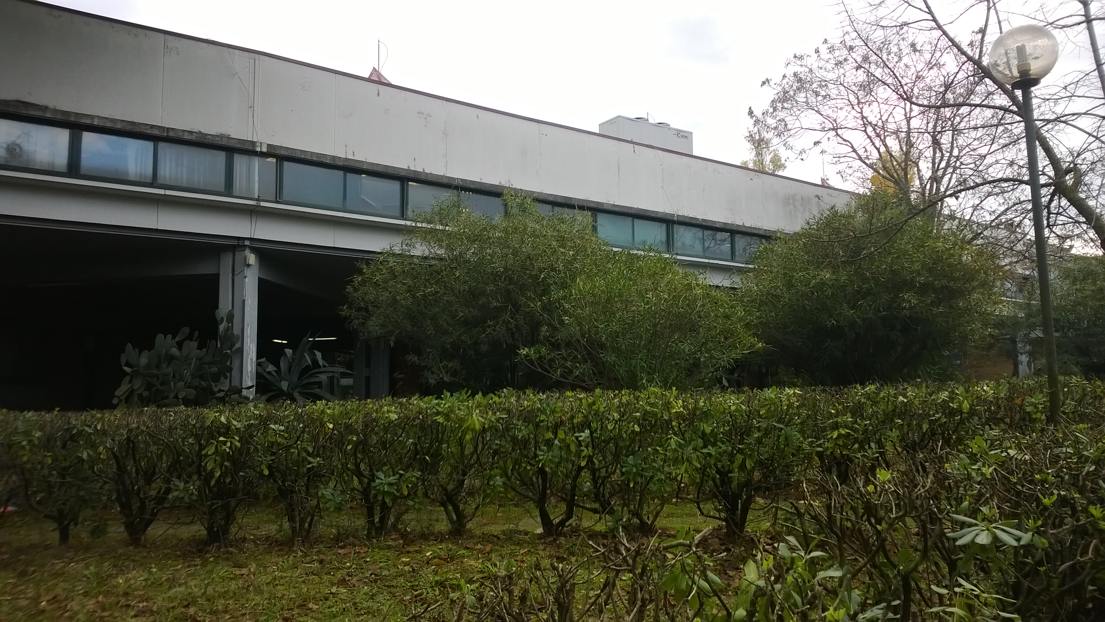 Vista dell'Edificio Polifunzionale: sede originaria dell'università; ora sede del dipartimento di Farmacia e Scienze della Salute e della Nutrizione